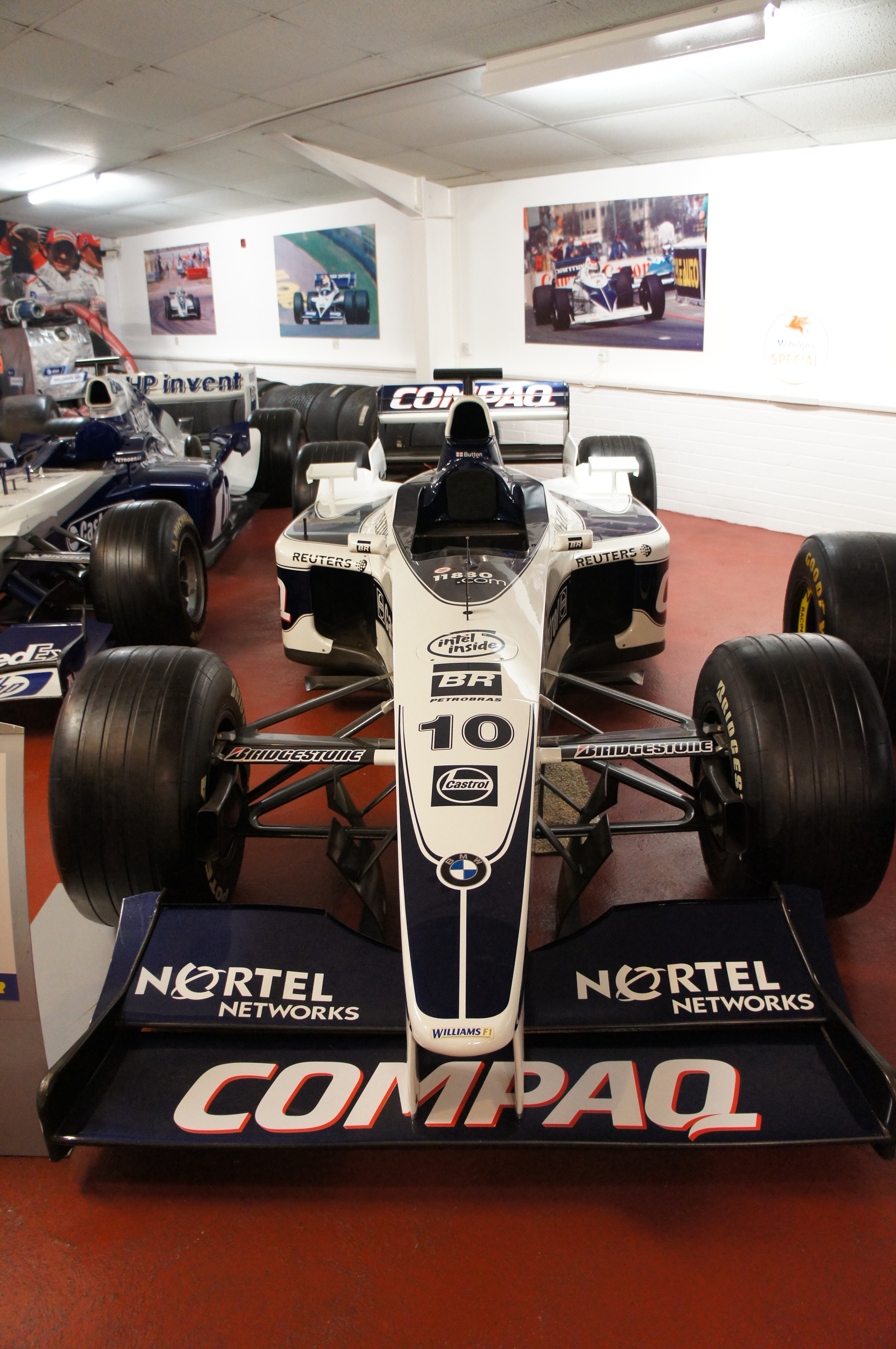 Williams FW22 at Donington Park.